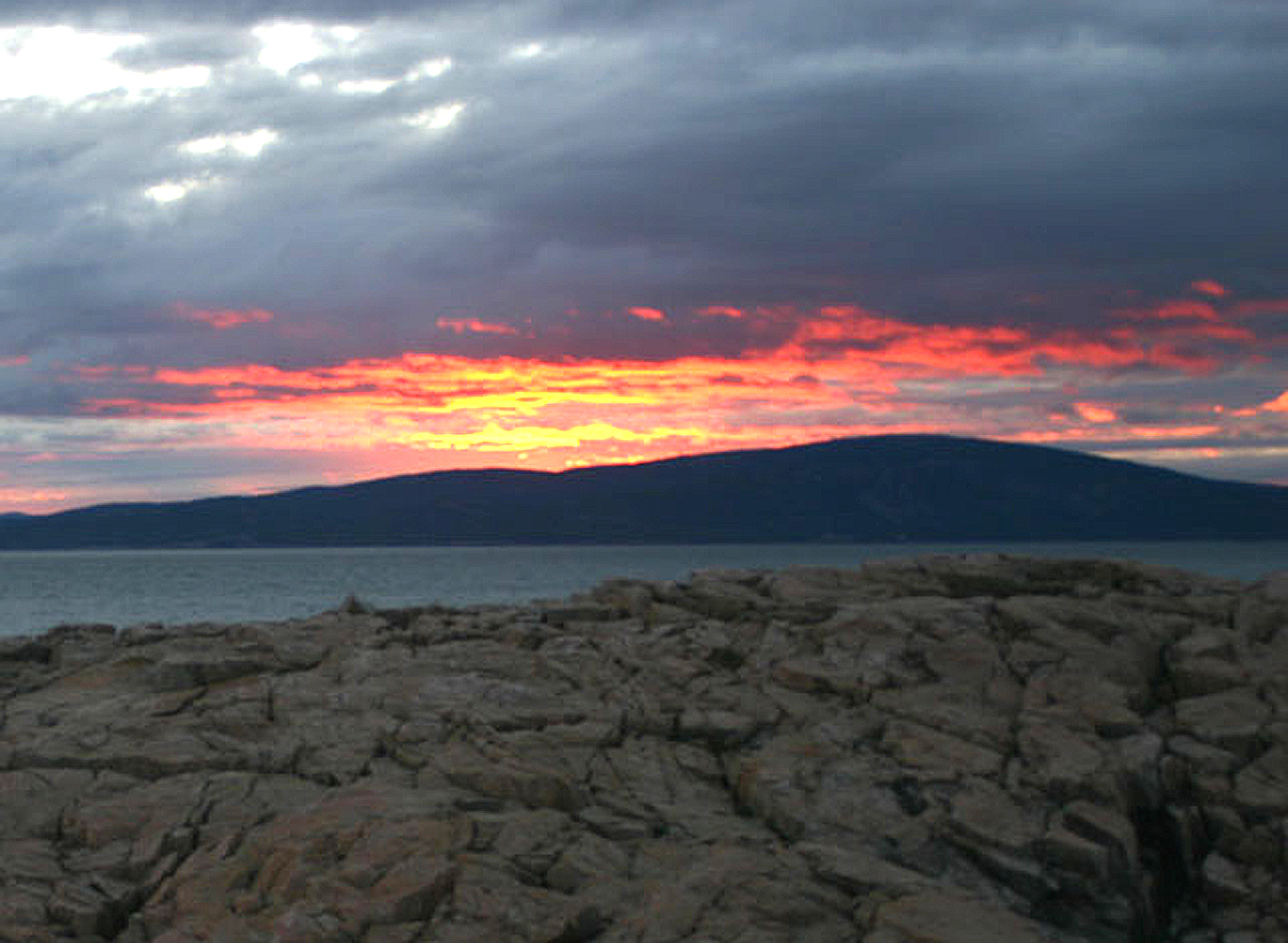 The sun sets behind Cadillac Mountain in Acadia National Park. Rocks at Schoodic Point in Winter Harbor, Maine, are visible in the foreground. Photo taken by user:NightThree with a Canon EOS-300D on September 19, en:2004.